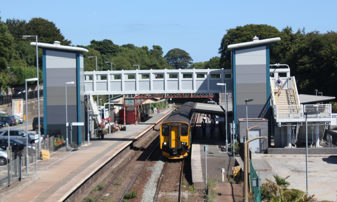 A Great Western Railway local service to Penzance calls at St Austell. It is a four-car train formed by 'Sprinter' units 150265 and 150125.